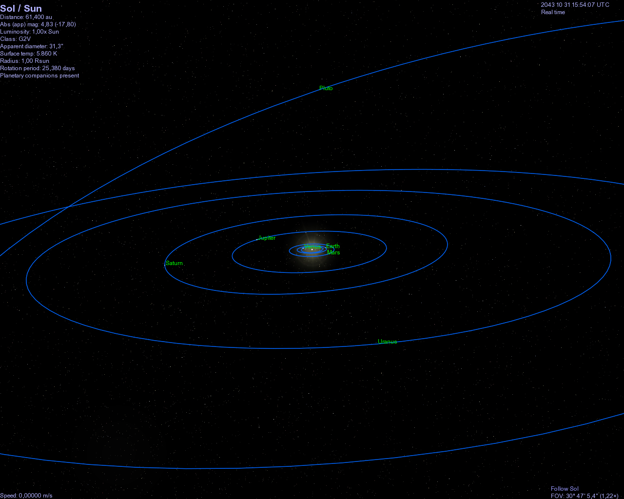 Solar System Orbits